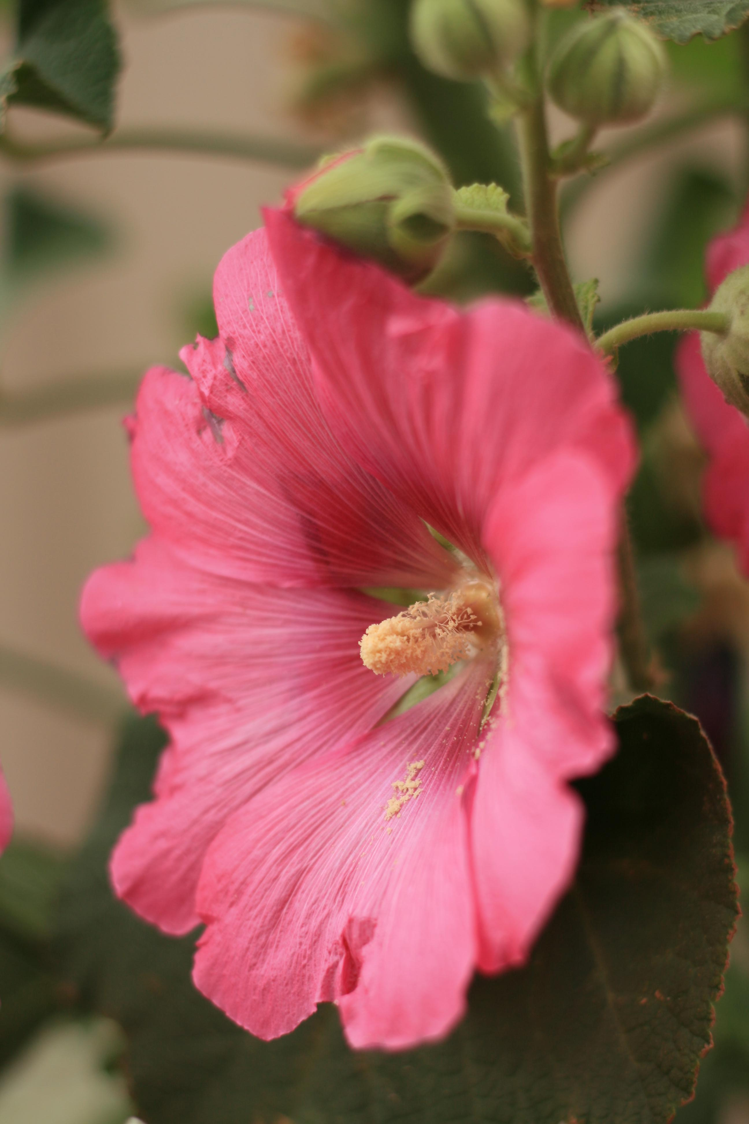 Pollen on an Alcea flower